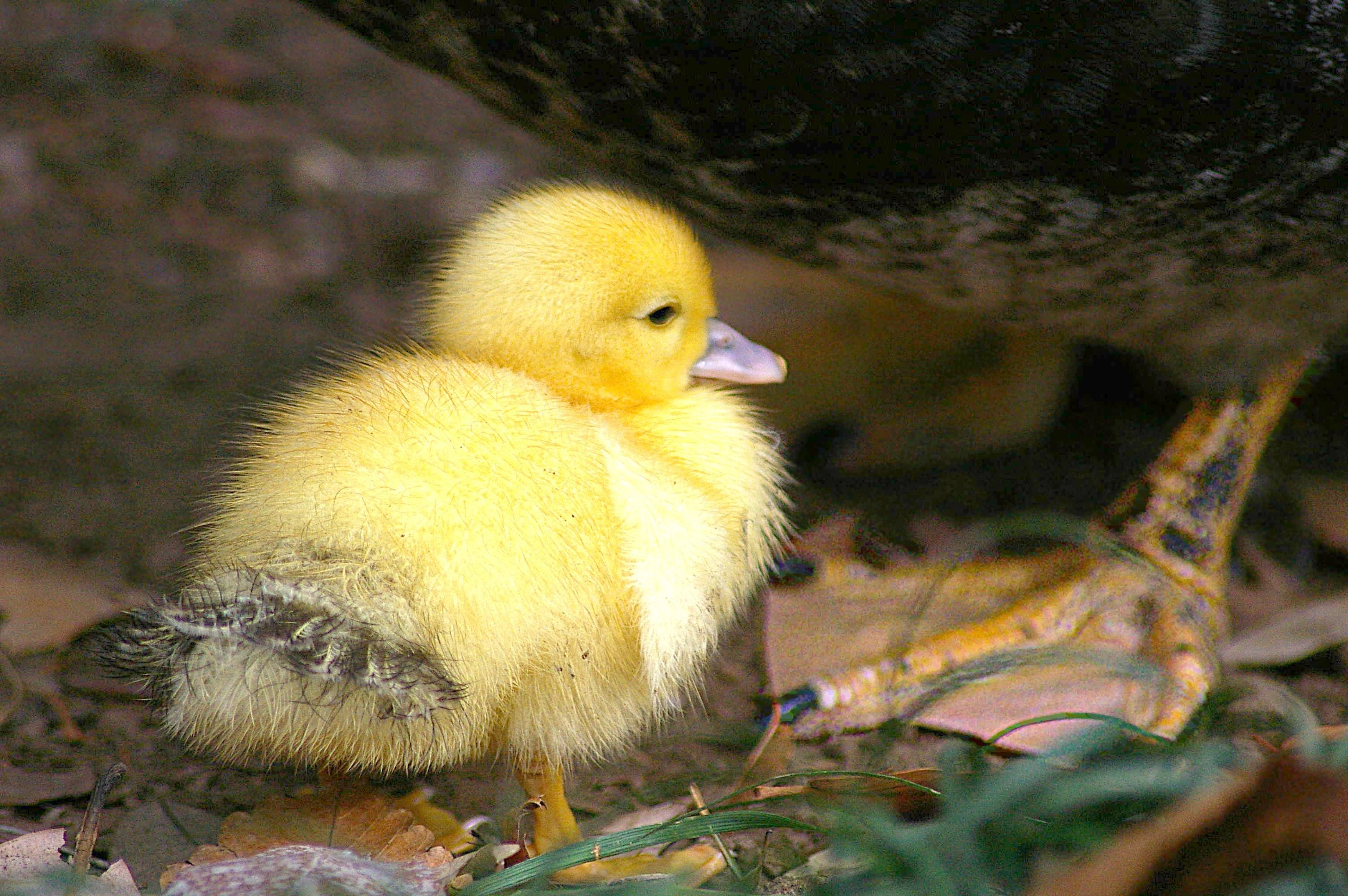 Muscovy Duck, Tsukuba, Japan